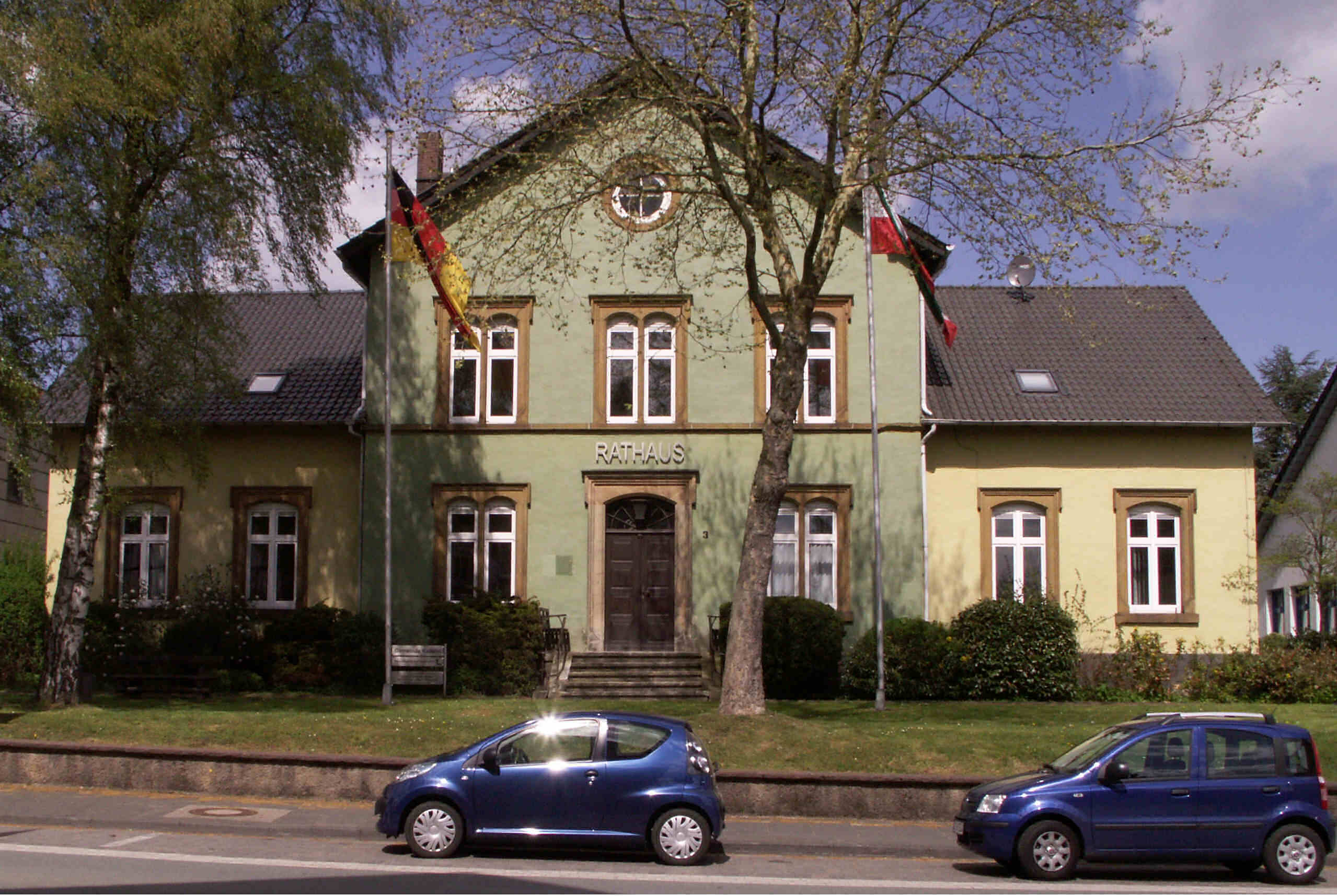 City Hall Kalletal Hohenhausen in the district, East side, old building.